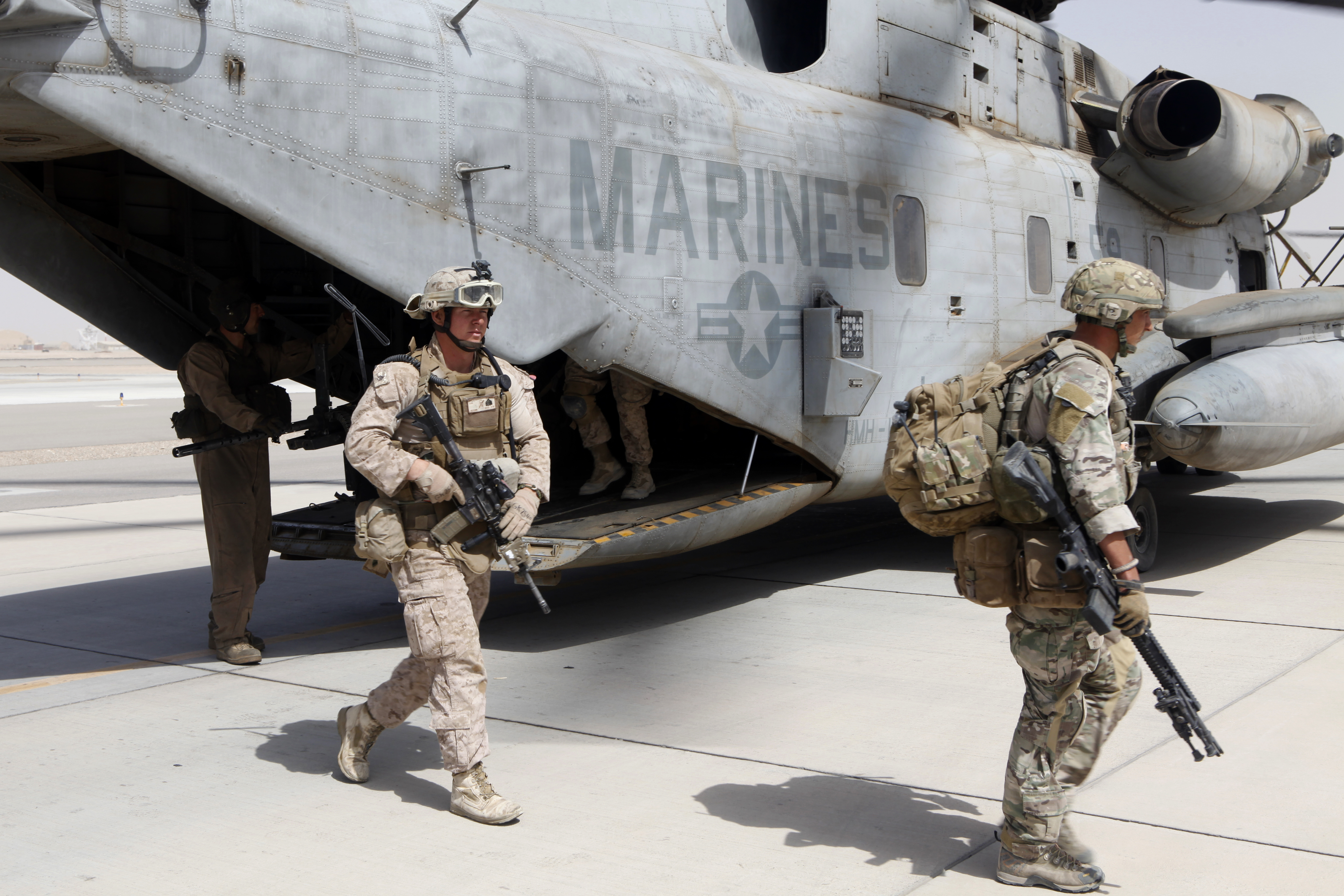 U.S. Marines with Golf Company, 2nd Battalion, 8th Marines (2/8), Afghan Territorial Force 444 (ATF-444) and British soldiers exit a CH-53E Super Stallion assigned to Marine Heavy Helicopter Squadron 462 (HMH-462) at Camp Bastion, Helmand province, Afghanistan, Aug. 31, 2013. HMH-462 transported 2/8, ATF-444 and British soldiers during a joint interdiction operation. (U.S. Marine Corps photo by Sgt. Gabriela Garcia/Released)